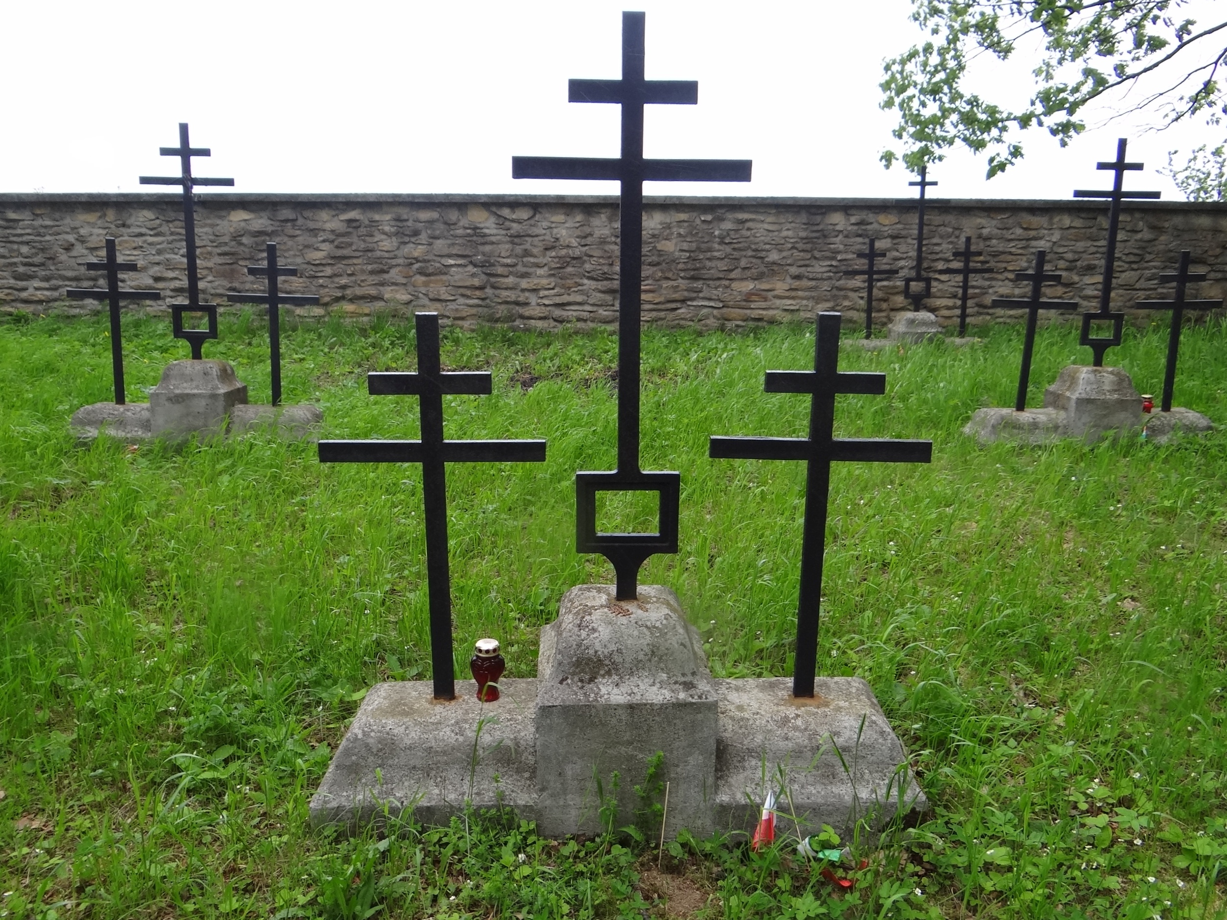 World War I Cemetery nr 117 in Staszkówka